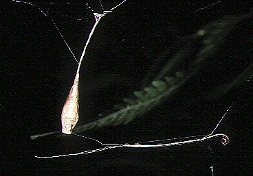 female Ariamnes cylindrogaster with eggsac from Okinawa.